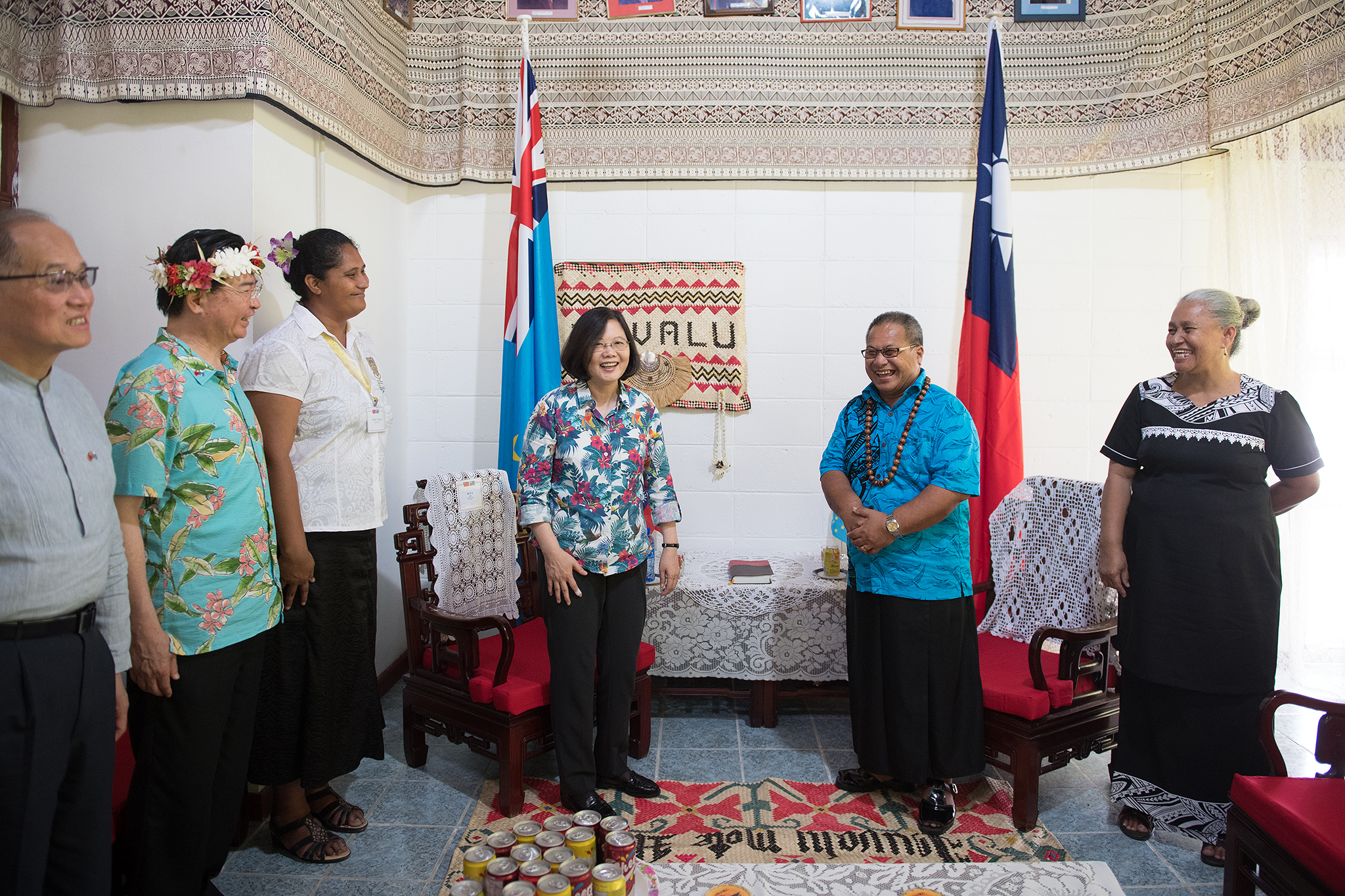 President Tsai visits Governor-General of Tuvalu Italeli. (2017/11/01) 授權方式及範圍：中華民國總統府│政府網站資料開放宣告 Authorization Method & Scope: Office of the President, Republic of China (Taiwan) | Government Website Open Information Announcement